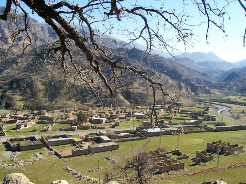 view